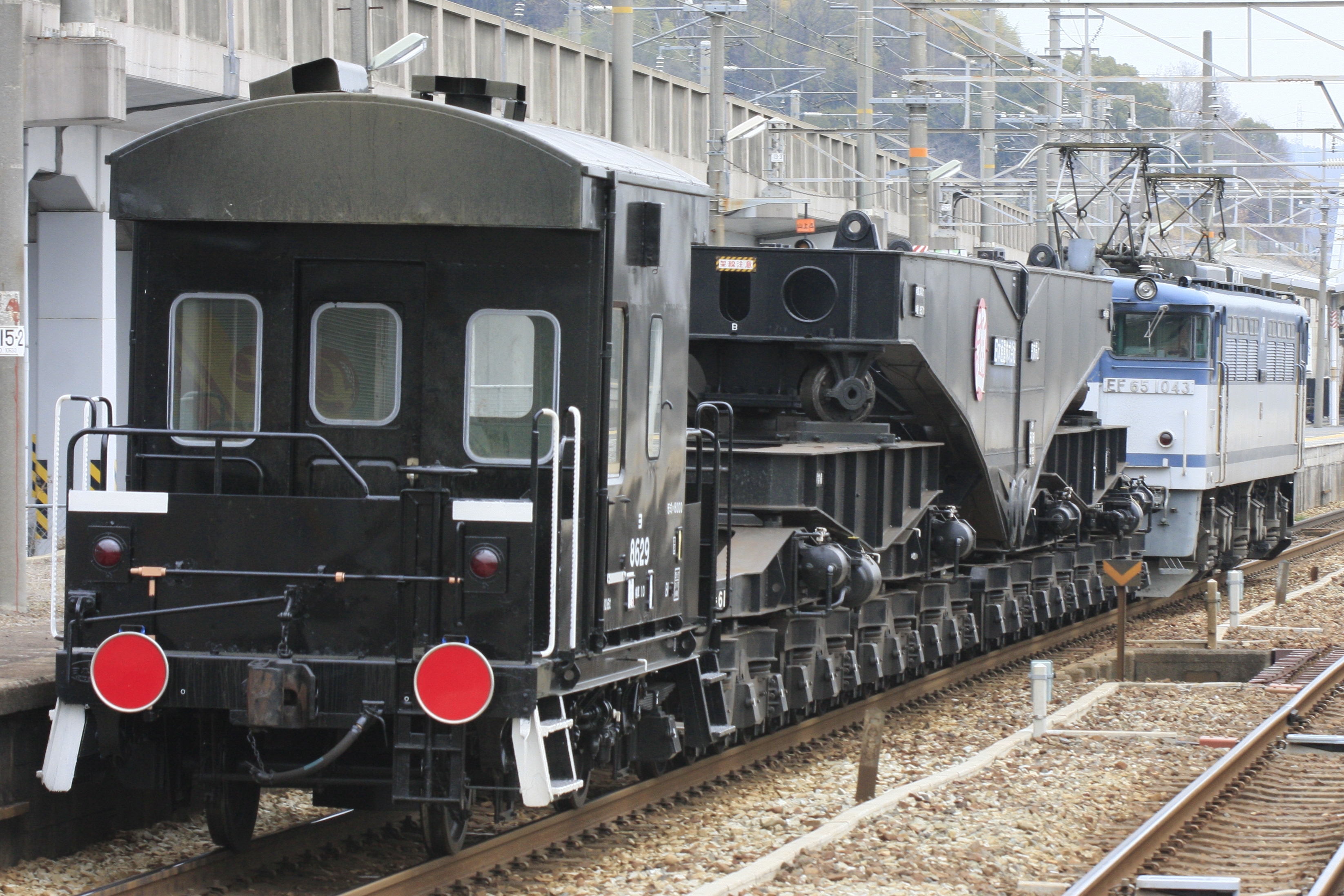 special freight car of JNR